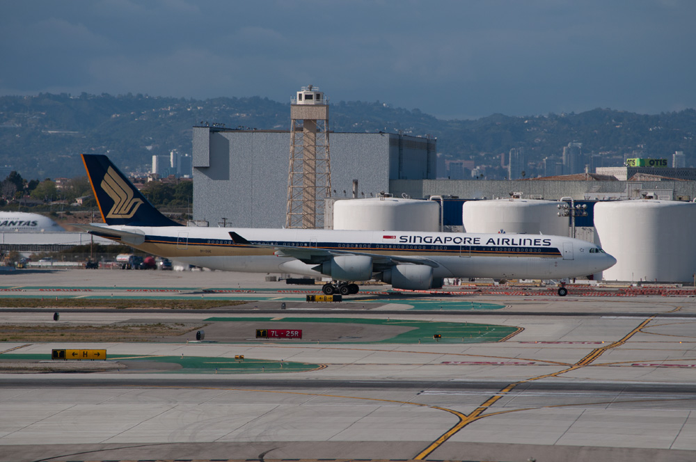 This is the premium nonstop service from Singapore, with 100 business class seats. It once was the longest regularly scheduled nonstop flight in the world. Two hours earlier, another Singapore Airlines aircraft had landed; it was a Star Alliance logojet and a Boeing 747, with three classes of service, operating with an intermediate stop at Tokyo Narita. Singapore Airlines had also previously operated a service to Los Angeles via Taipei, although the route is no longer active. 9V-SGE, Airbus A340-500